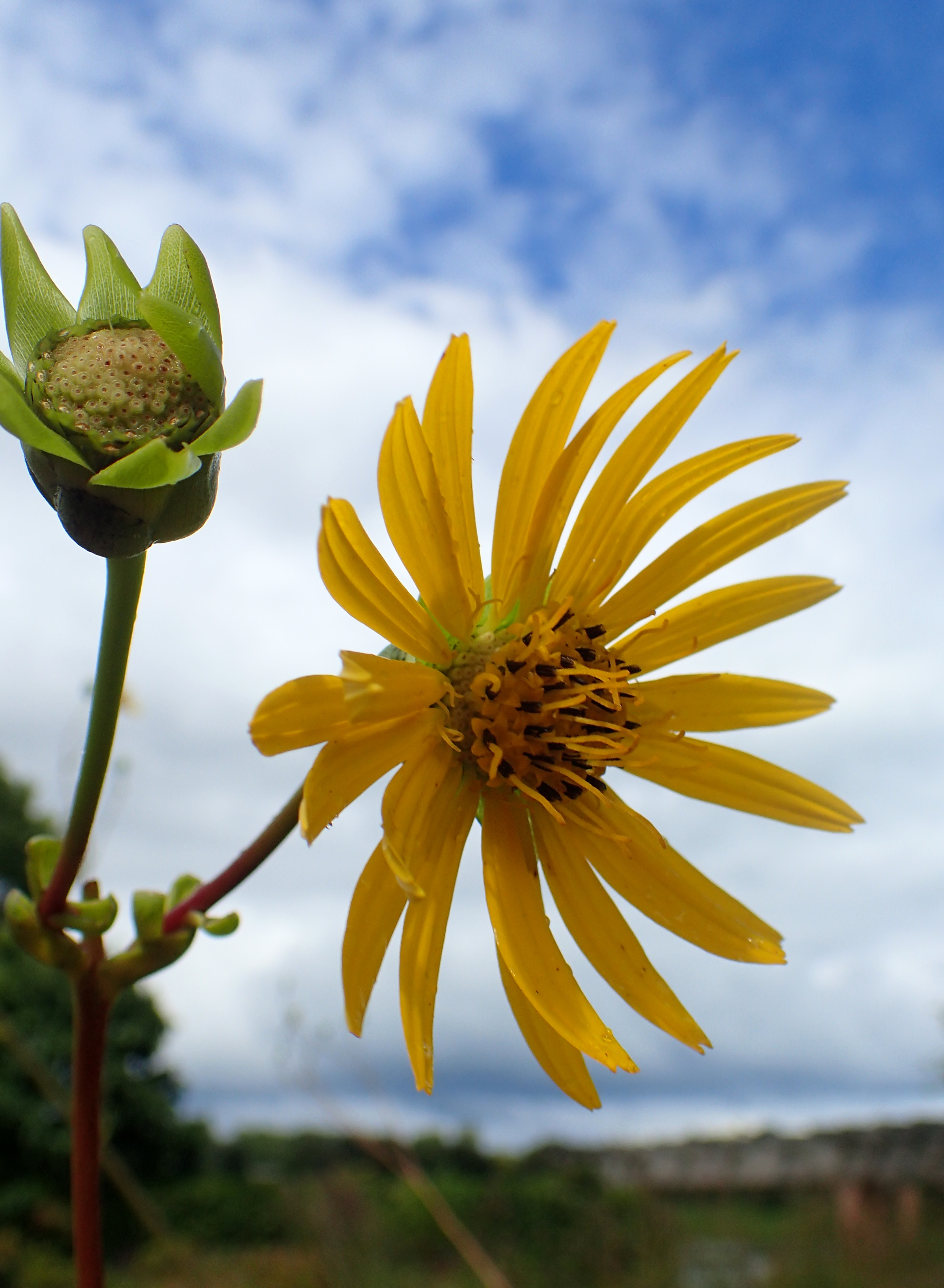 Silphium terebinthinaceum at Chicago Botanic Garden